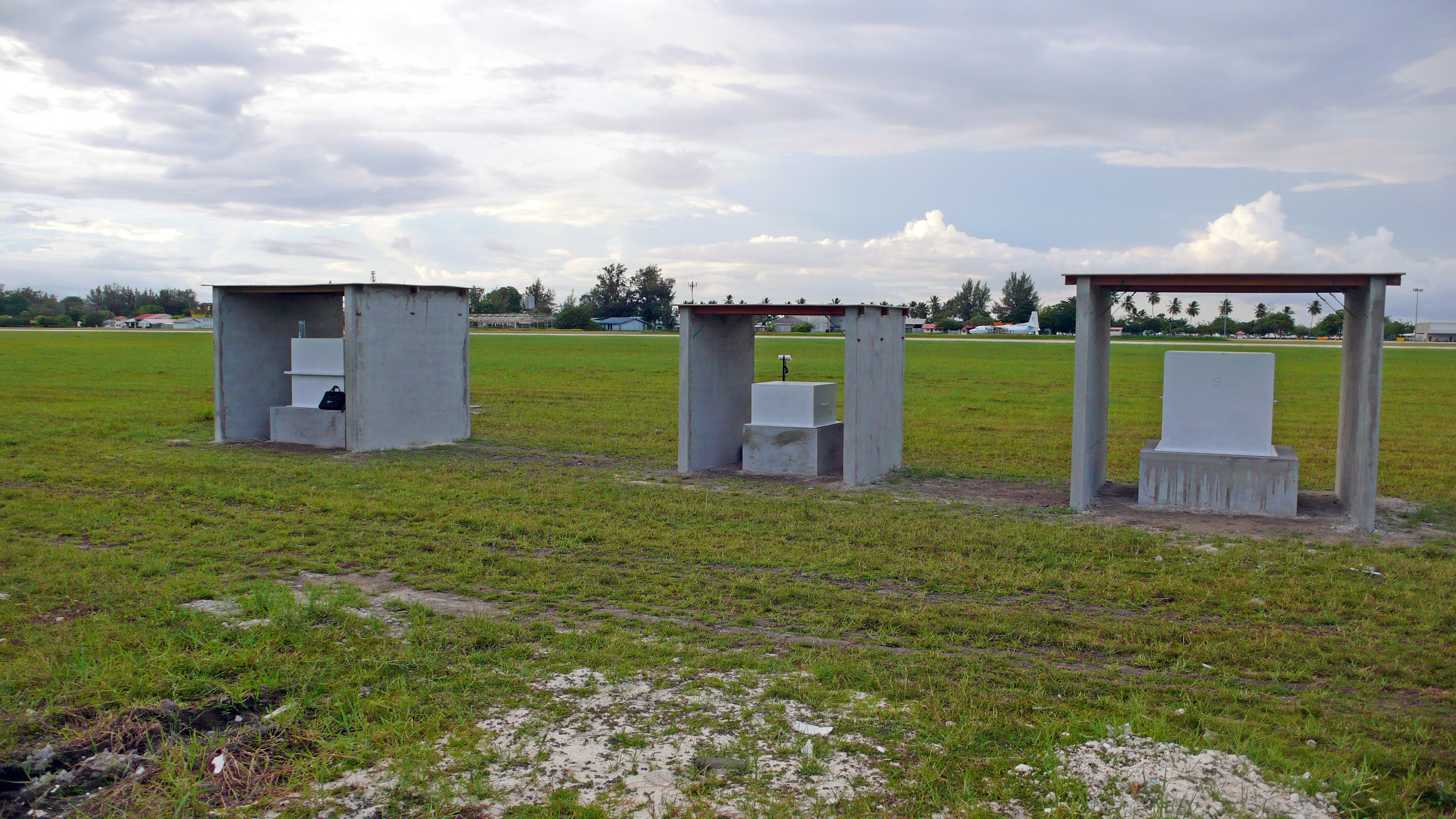 electronics, Overhauser, and variometer huts (left to right) at Gan airport